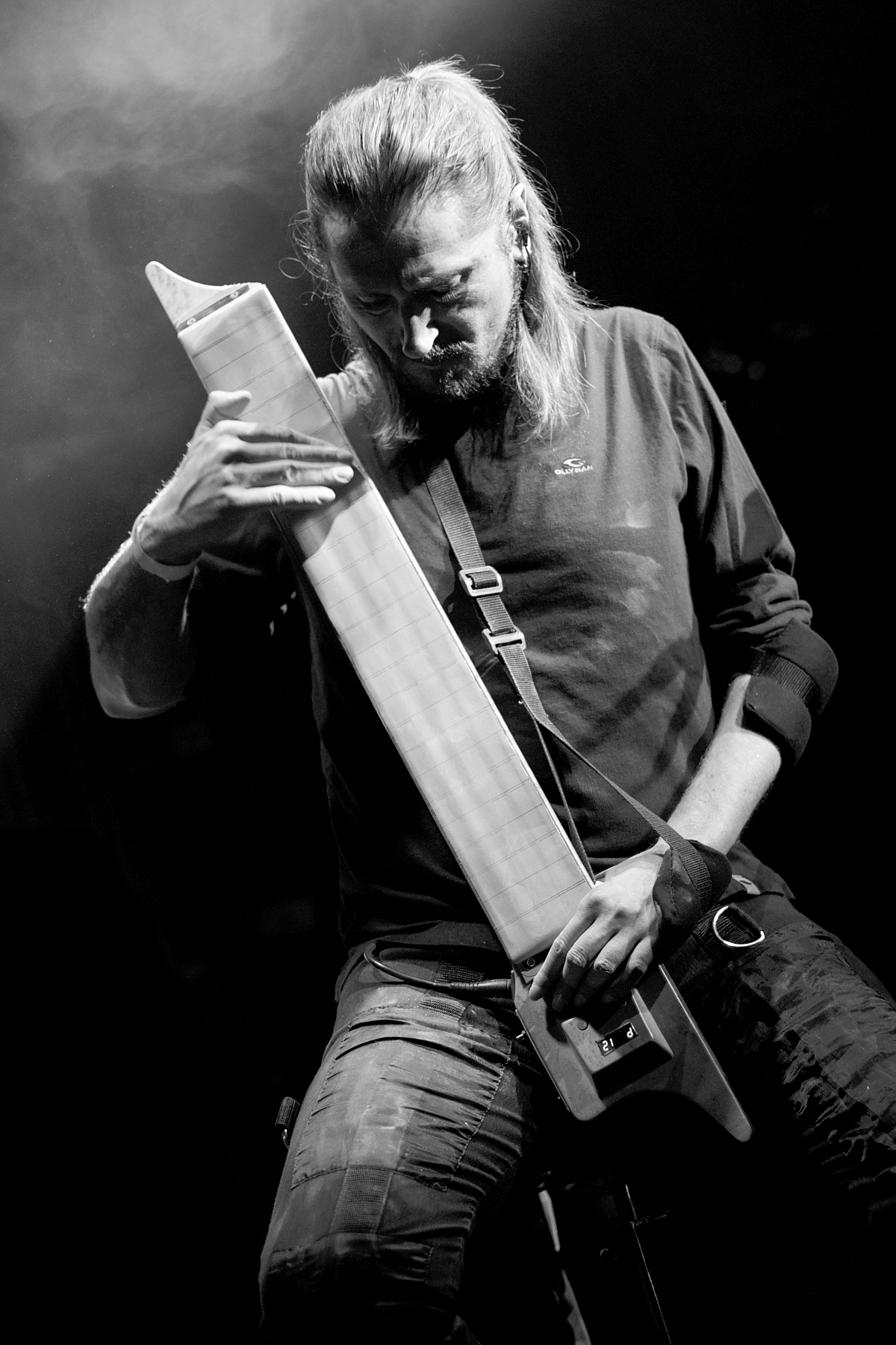 View in my concert gallery.